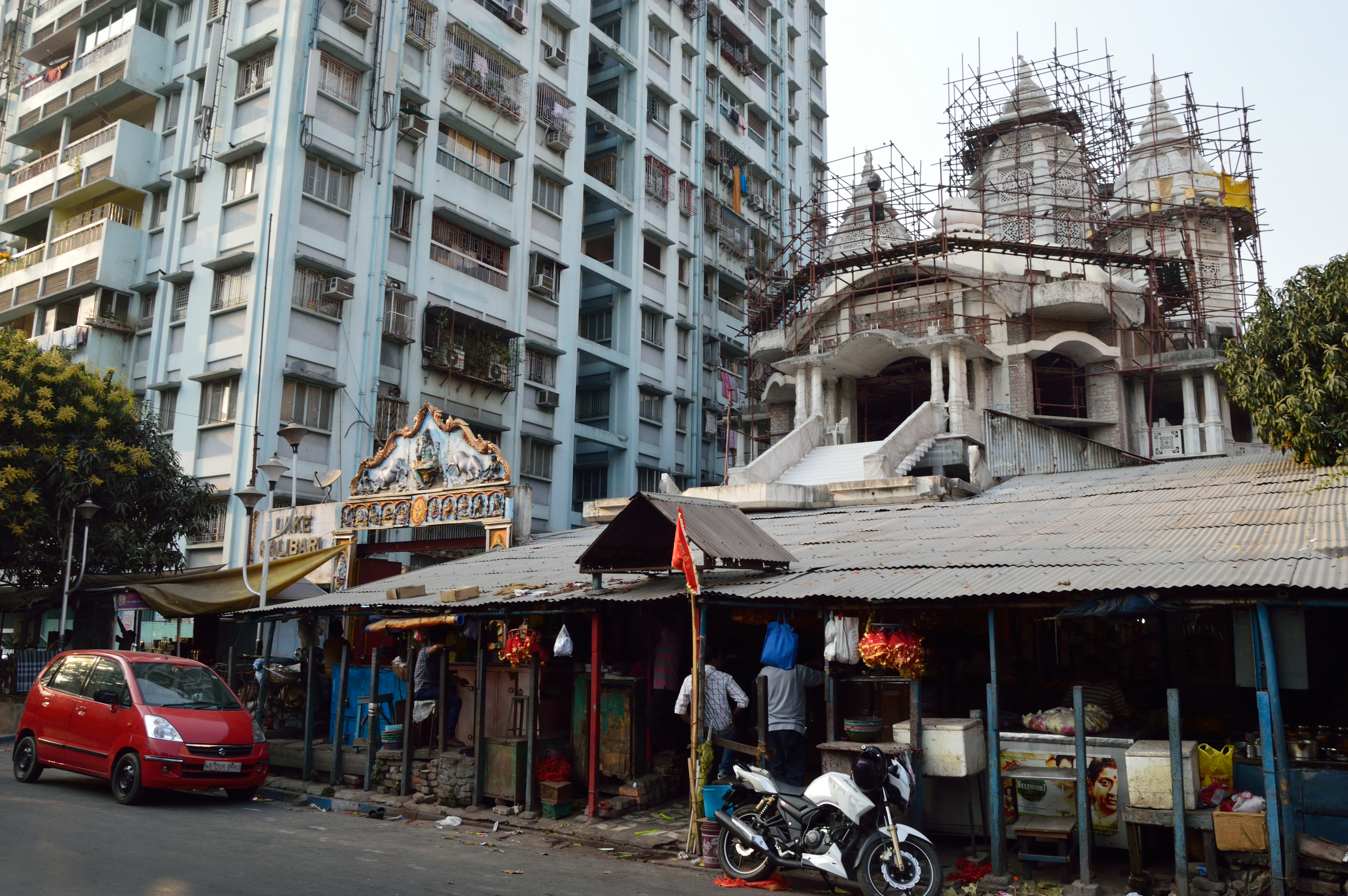 Photographed in Kolkata.